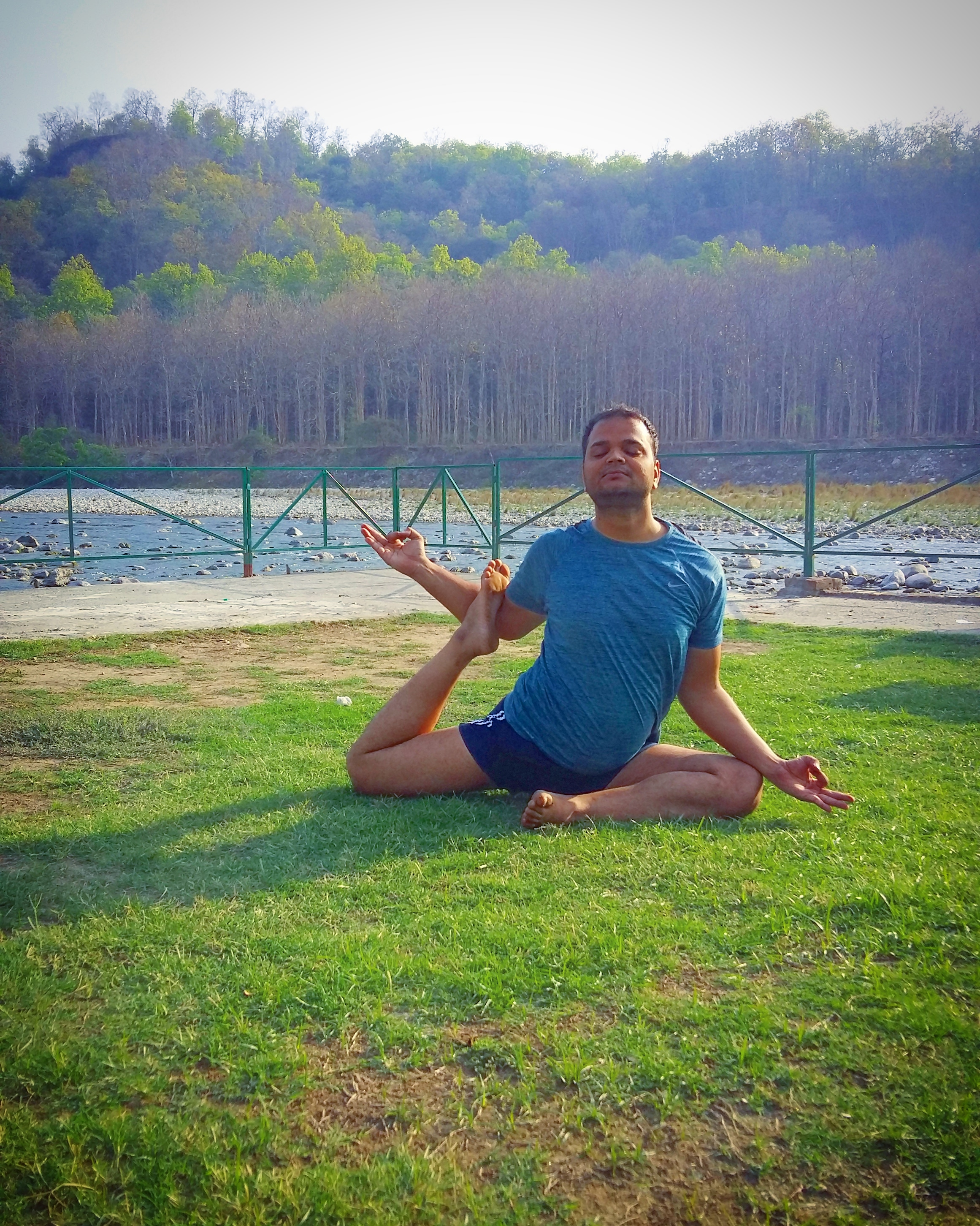 Rajakapotasana.. Sadhak Anshit